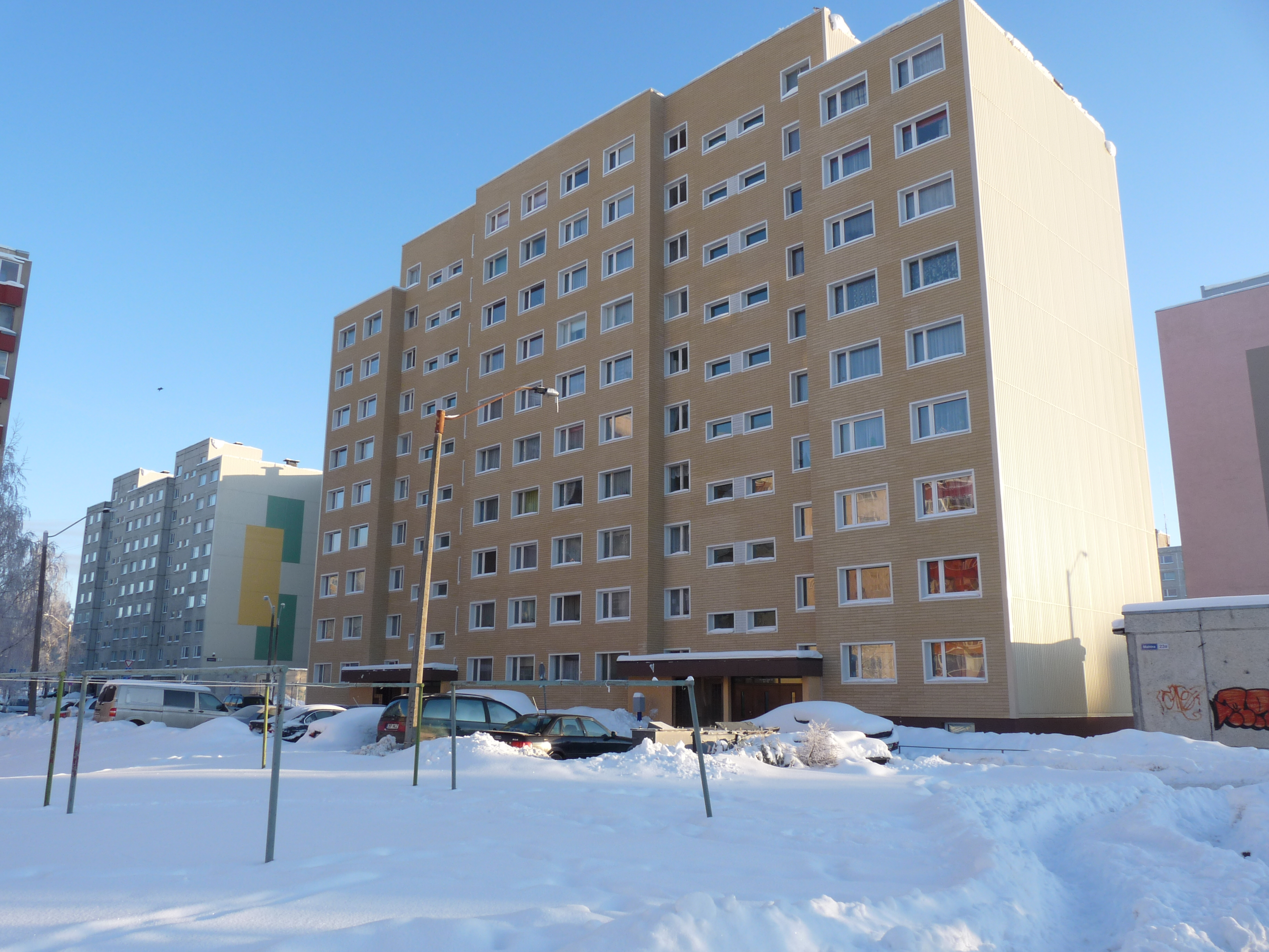 Apartment block type 1-515/9Ш in Mahtra street with decorated exterior.